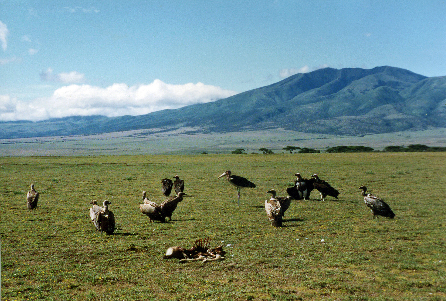 Lappet-faced Vultures (Torgos tracheliotos, the big dark birds with pinkish heads), young Rüppell's Vultures (Gyps rueppellii, those with the scaly fringes on the mantle feathers) and White-backed Vultures (Gyps africanus, the pale birds on the left) and Marabou Stork (Leptoptilos crumeniferus, the long-legged bird at center), around carcass on the Serengeti, Tanzania.